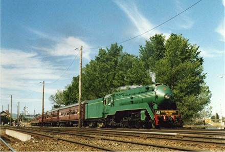 The Bi-Centennial Train passes through Wodonga, Victoria 16 October, 1988